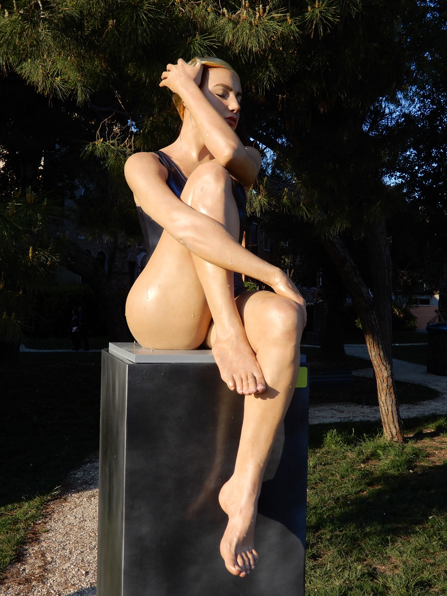 Hyperrealistic sculpture by one of the founders of the genre of Hyperrealism (visual arts), Carole A. Feuerman, measuring 53” x 22” x 16” (134.62” x 55.88” x 40.64”) entitled “The Midpoint” at her solo exhibition at the Giardino della Marinaressa by the 2017 Venice Biennale. Summary of work details below: Title: The Midpoint Year: 2017 Medium: Oil on Resin Dimensions (hwd): 53” x 22” x 16” (134.62 x 55.88 x 40.64 cm)